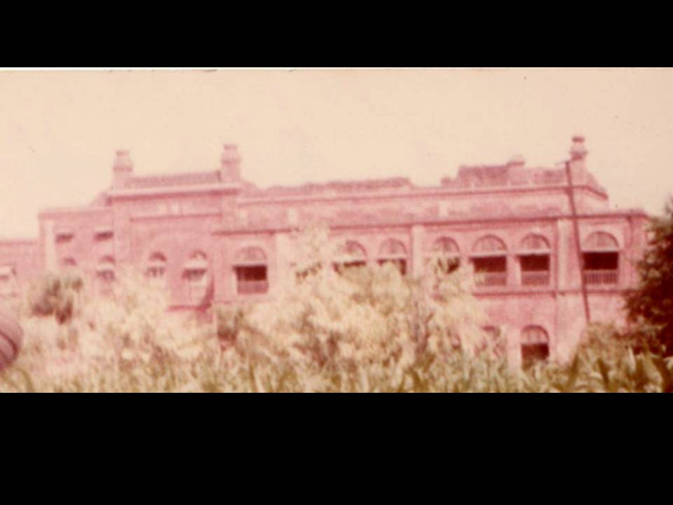 This fort existed at village Sidhuwal few years back